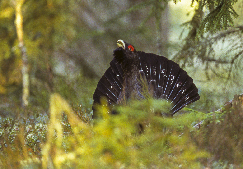 Eurasian Capercaille - Finland 05 0001